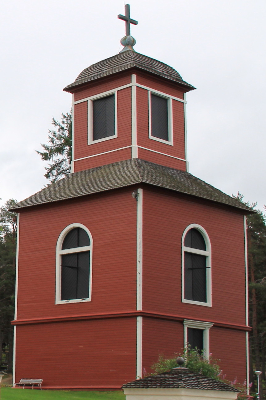 Ylitornio church bell tower, Ylitornio, Finland. - Bell tower seen from churchyard's gate.